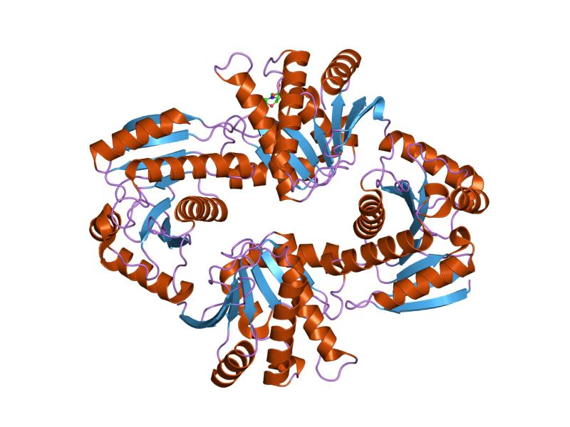 Cartoon representation of the molecular structure of protein registered with 1zr3 code.